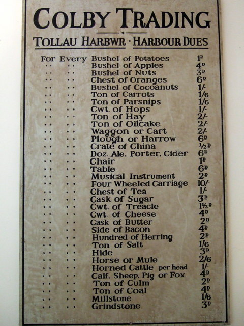 Cardigan harbour dues, no.2 Everything one could wish for to lead a contented life seemed capable of being delivered to the quayside here. Food for man and beast, strong drink, china and furniture for the repast, music, fuel, transport and even a fox if the chase be lacking!